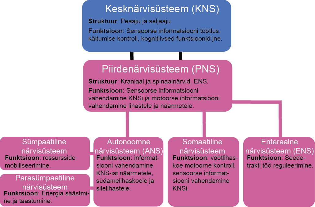 Divison of the vertebrate nervous system - Estonian